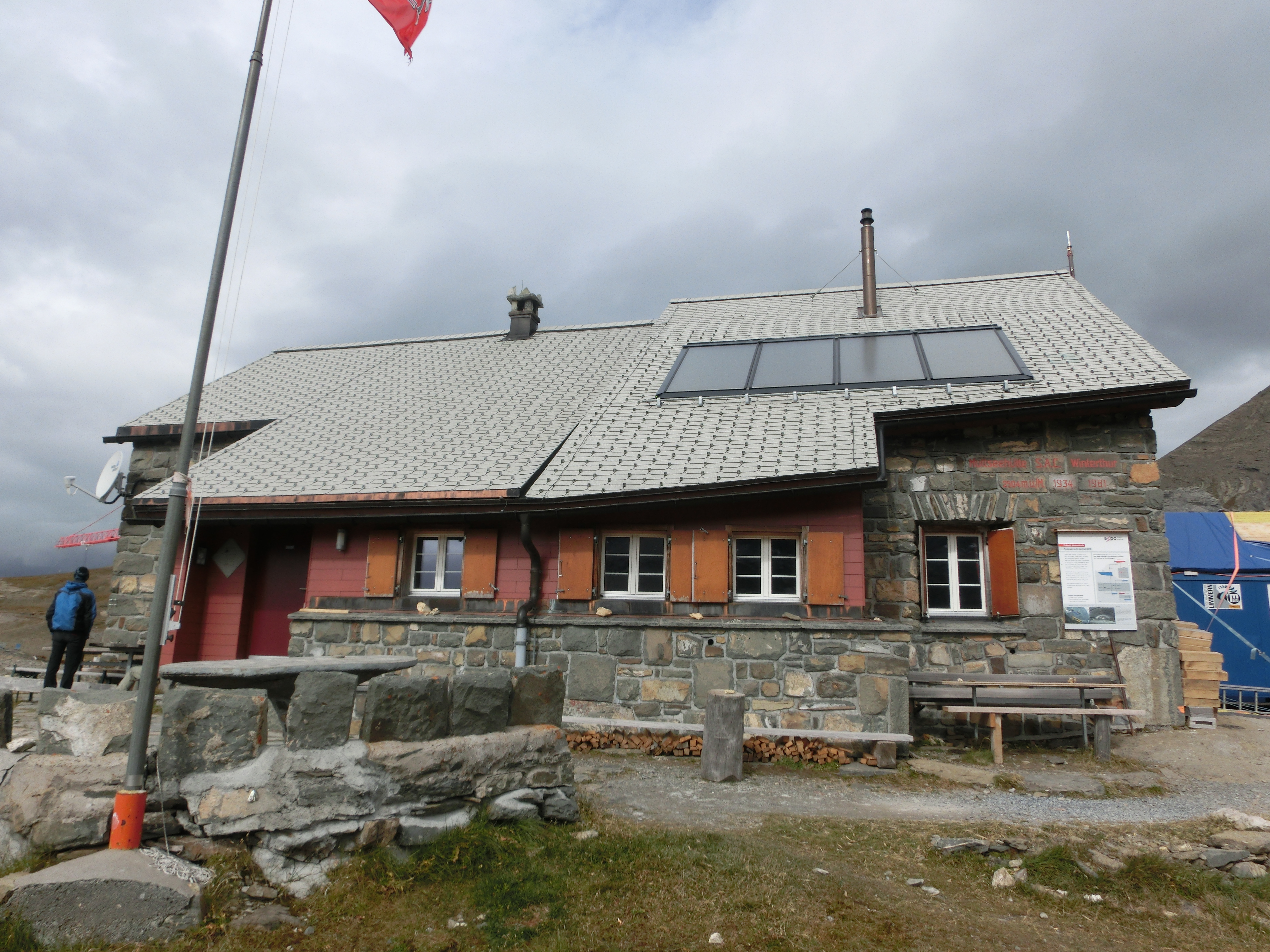 Muttseehütte, Glarus Süd, Glarus, Switzerland